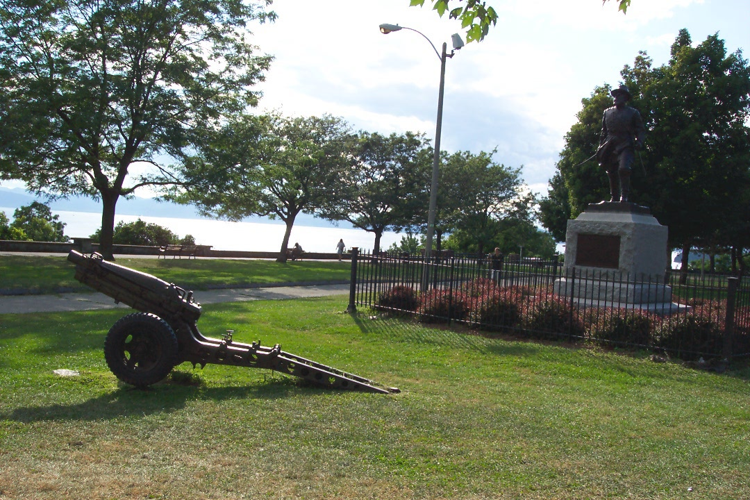 Battery Park in Burlington. Located at the top of Battery Street in downtown Burlington, lies Battery Park. This historic park, deeded to the City in 1870, boasts a panoramic view of Lake Champlain and the Adirondacks, with a promenade, playground, monuments and a bandshell. A commemorative cannon and a statue of Vermont's famous civil war General William W. Wells is captured in this photograph.The cannon is a 75 mm pack howitzer, M116 or similar.